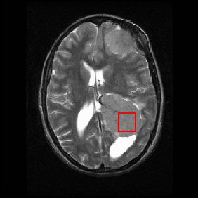 Author = David J. Manton, Ph.D. Source = Own work. Fair use = Yes. This image is uploaded for the purposes of educational use.